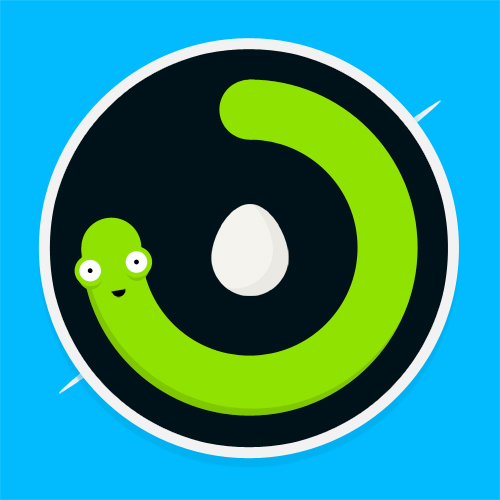 Official Zooniverse avatar for Worm Watch Lab